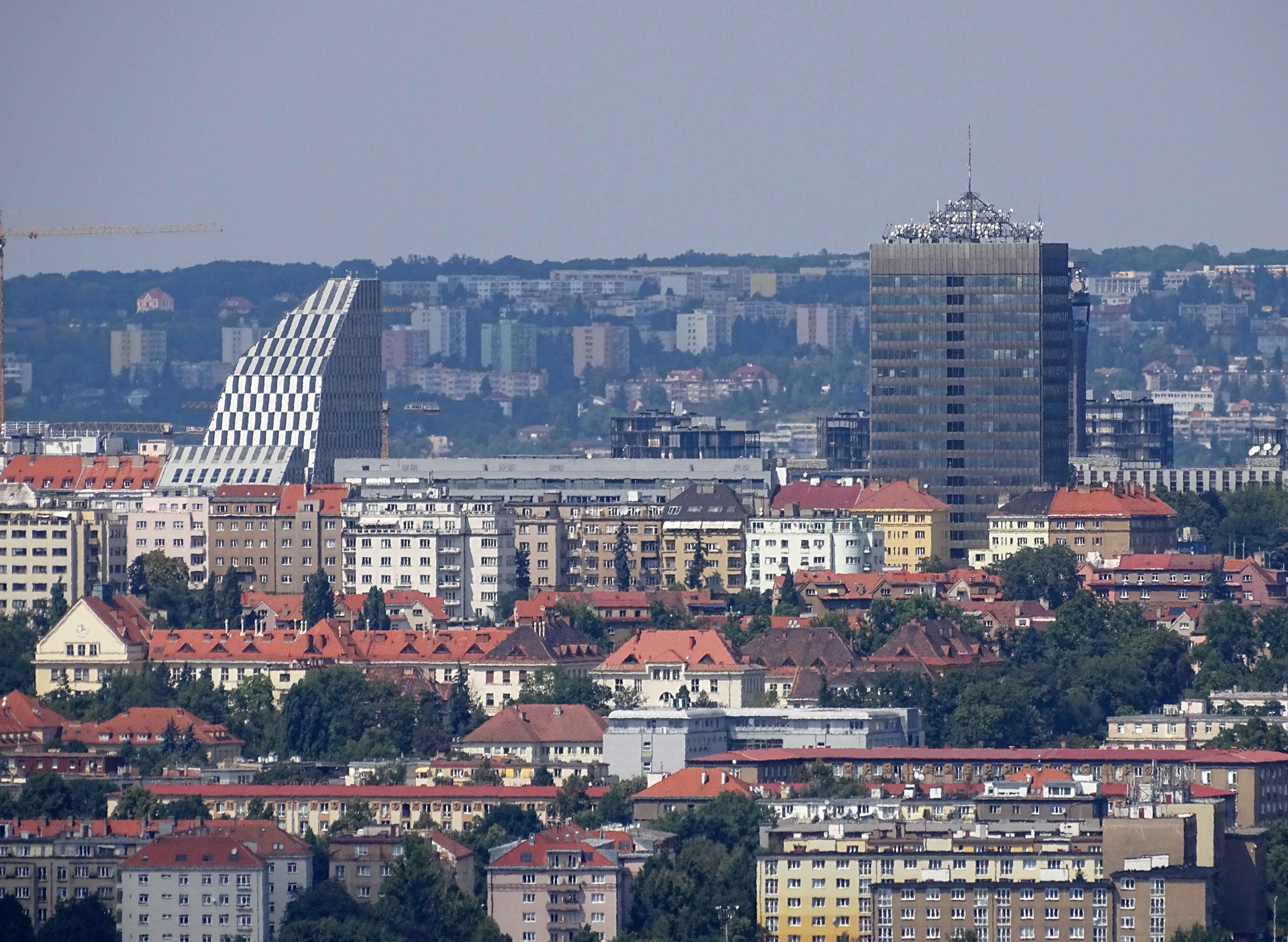 Prague-Chodov, Czech Republic. A view from Prague City Archives buildings (Archivní 1280/6). Vinohrady, Crystal and Strojimport.